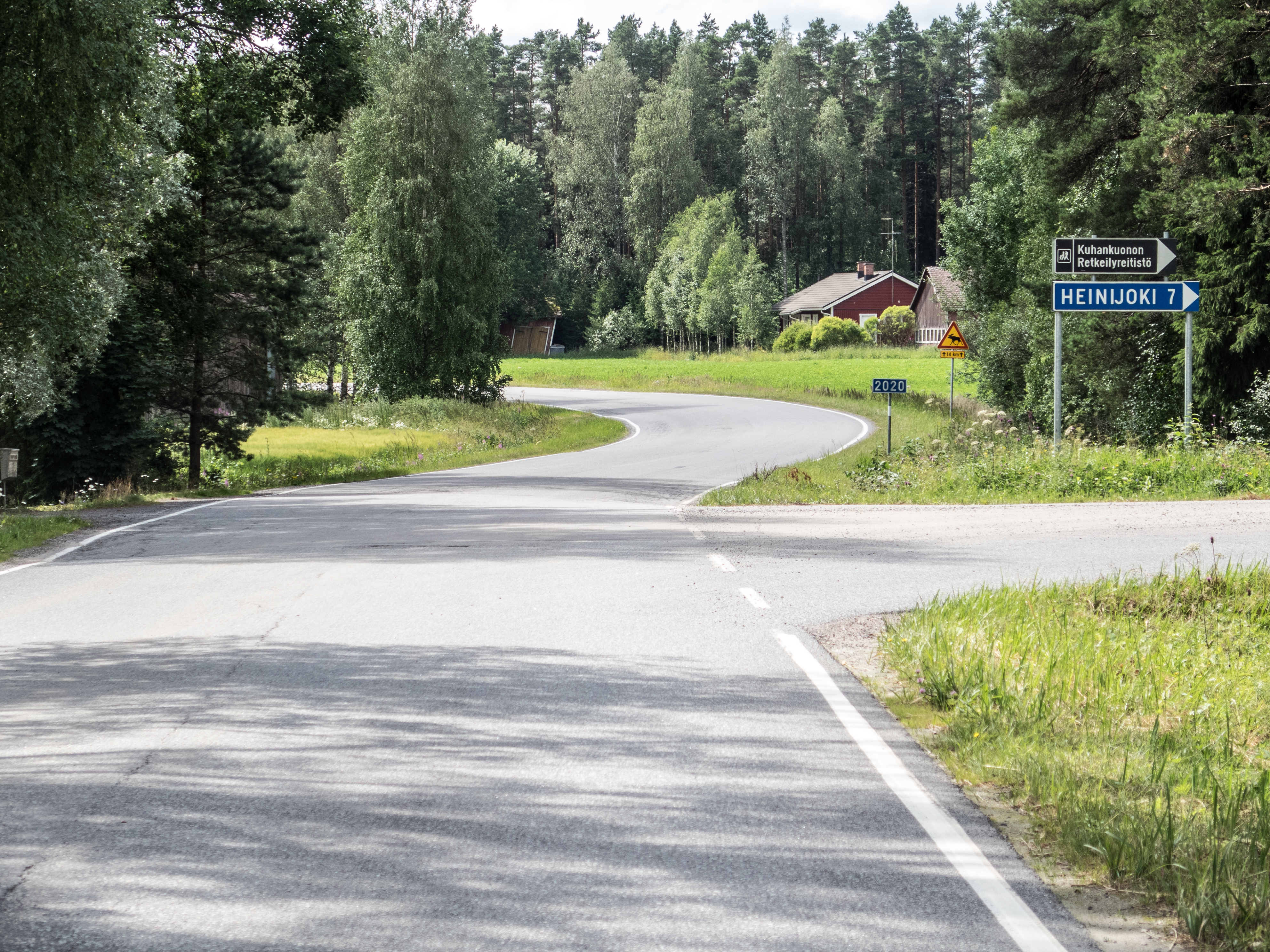 Connecting road 2020 in Otsola, Pöytyä, Finland. The road runs from Mynämäki to Yläne, Pöytyä.